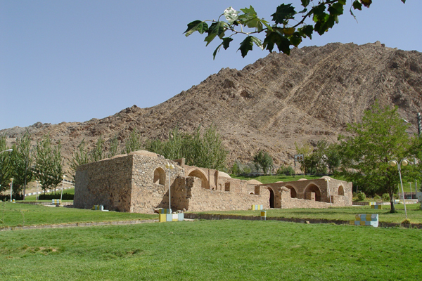 Khaneghah E Sheykhabosaeed